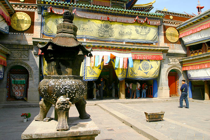 Ta'er Monastery (Kumbum Monastery), Huangzhong County, near Xining, Qinghai, China